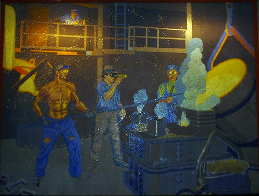 Photograph of a mural at the Cincinnati / Northern Kentucky Airport, depicting the Foundry products operations (Cincinnati Milling Machine). Photo taken June 12, 2004, and image edited to remove display features such as brass poles and barrier ropes; brightened image.